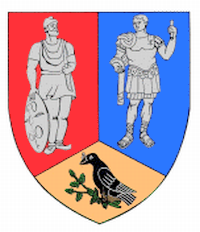 Coat of arms of Hunedoara County, Romania.